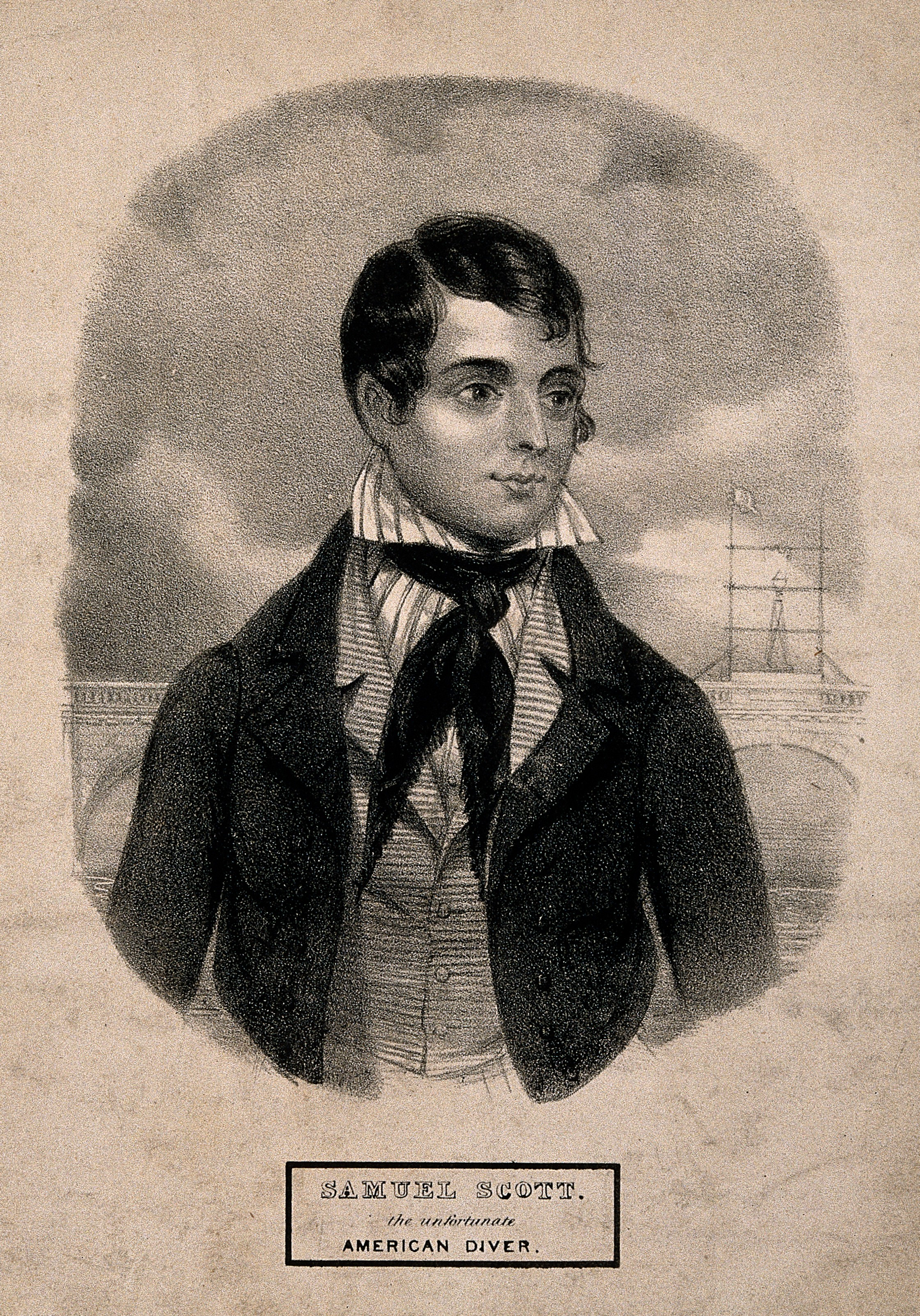 Topic-LCSH: Divers. Losers. Genre/Technique: Portrait prints. Lithographs. Subject name: Scott, Samuel.